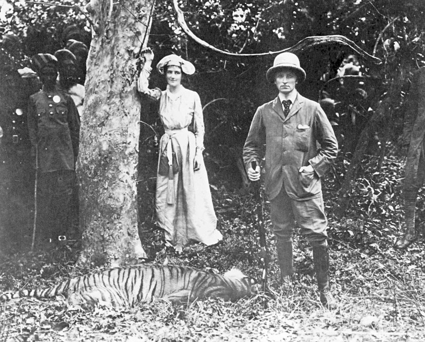 Lord and Lady Curzon on a hunt